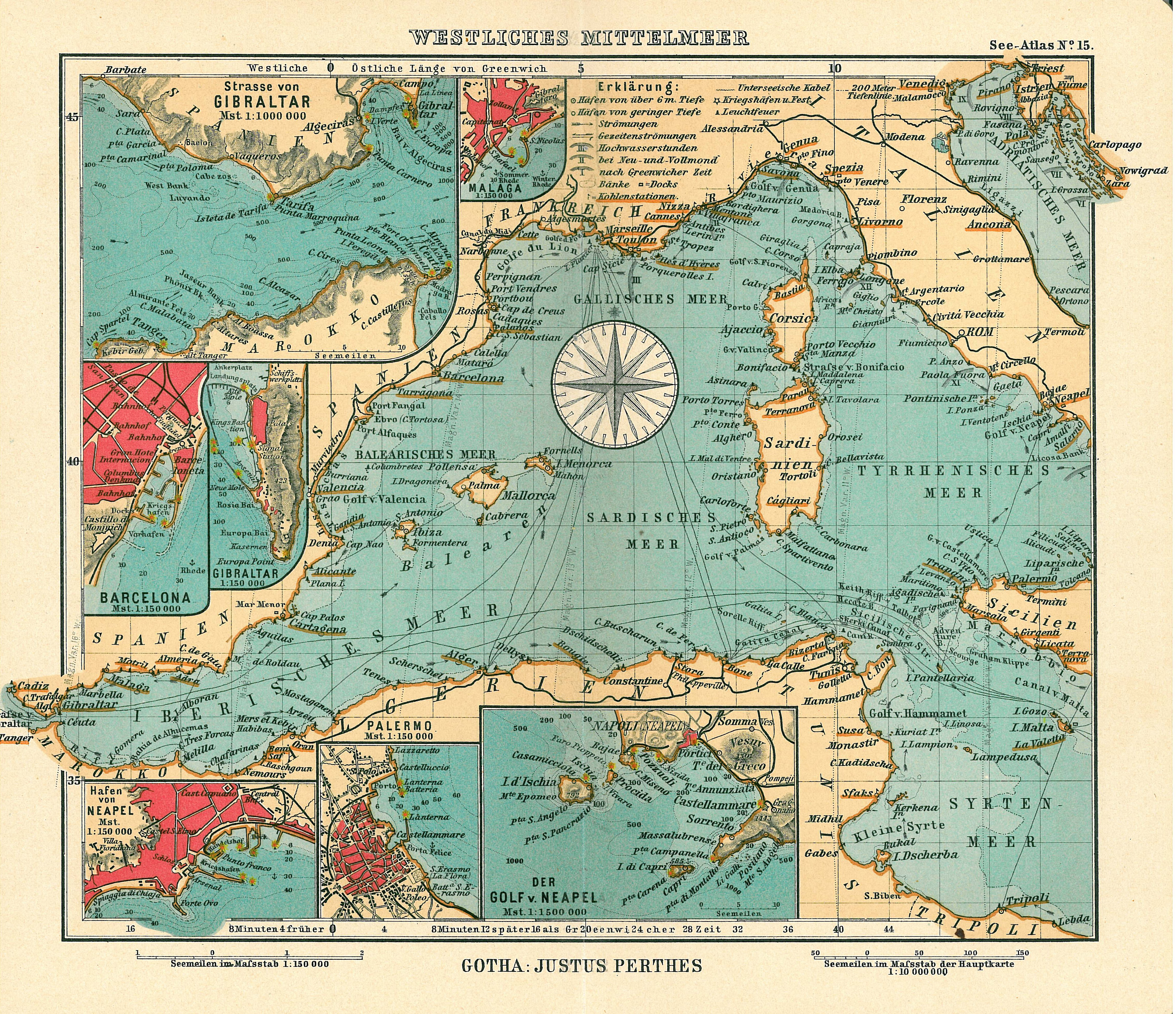 Page 15, Western Mediterranean sea, inset maps of Gibraltar, Malaga, Barcelona, Naples and Palermo